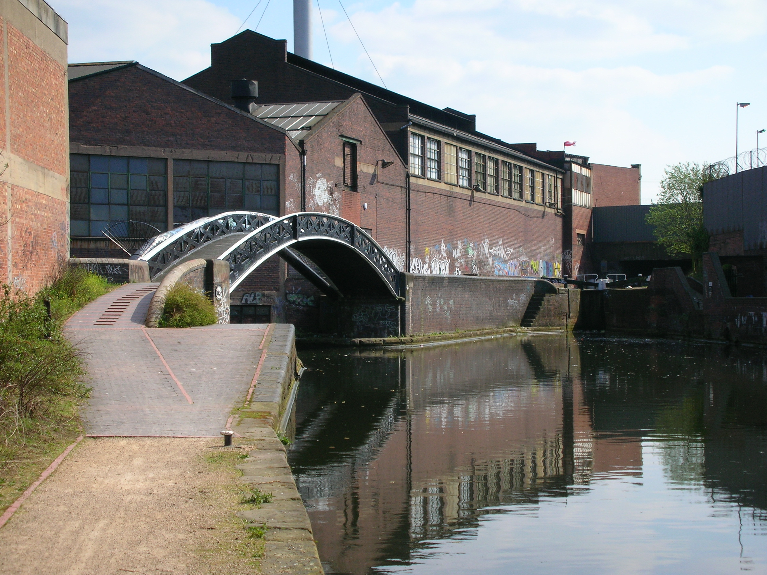 Bordesley Junction, Birmingham, England. The junction of the current Digbeth Branch Canal (behind camera) with the Grand Union Canal Main Line [left (originally the Birmingham and Warwick Junction Canal)], and ahead through Camp Hill bottom lock (Originally the Warwick and Birmingham Canal). The roving bridge is by Lloyds & Fosters. Photographed by me 11 April 2007. Oosoom